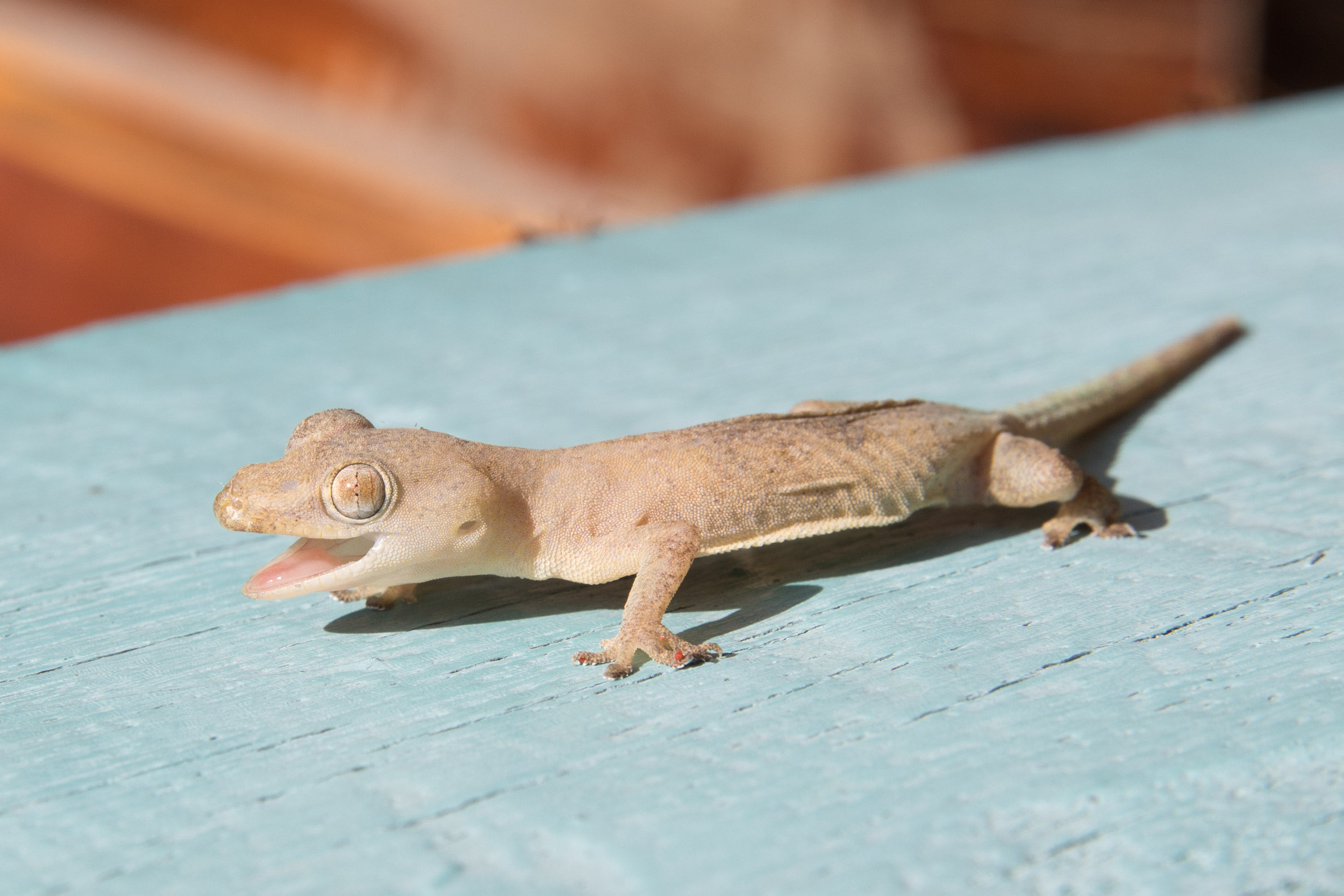 Hemidactylus frenatus (Common House Gecko), open mouth, in the sun, in Laos